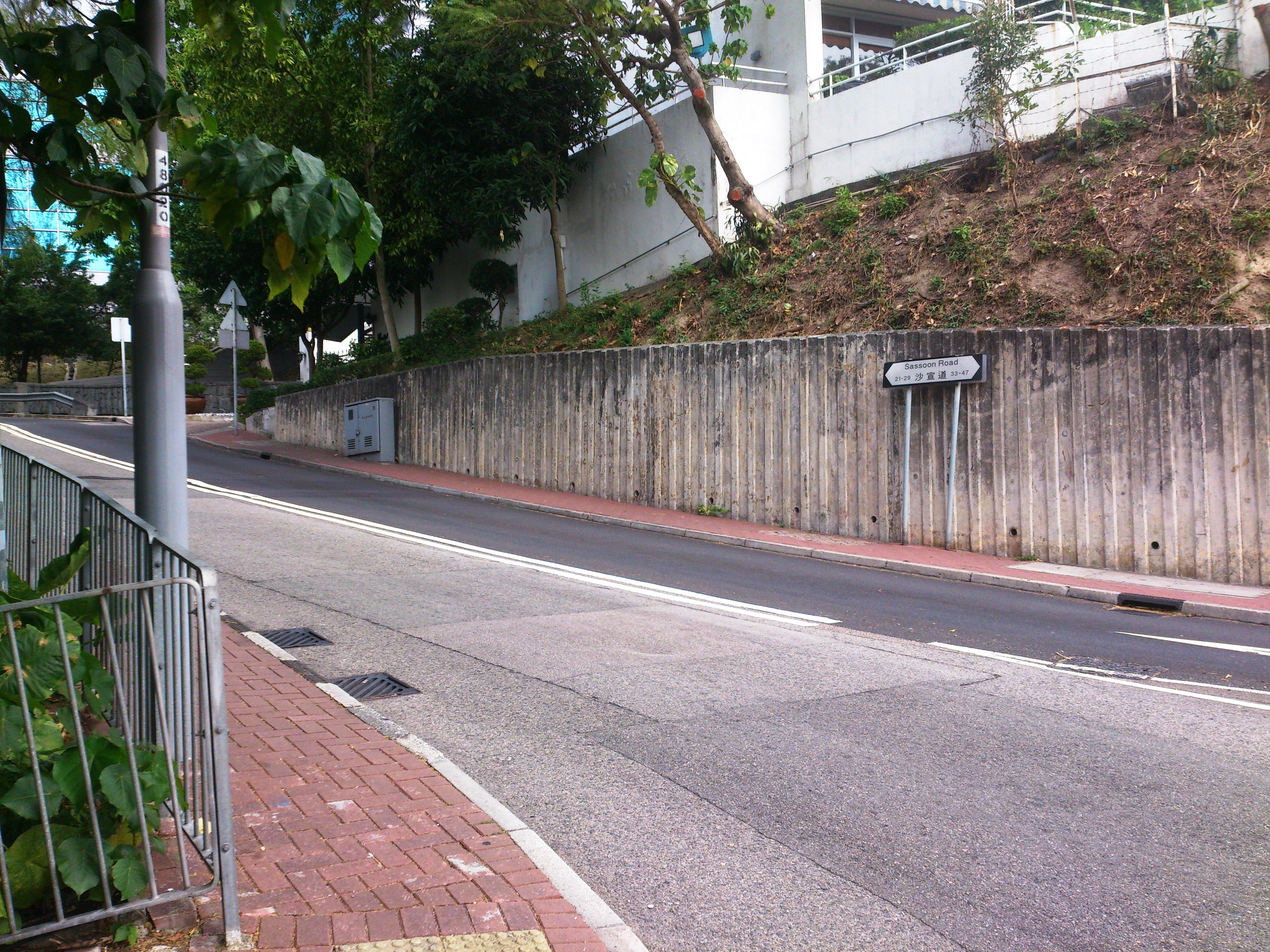 Sassoon Road near Victoria Road